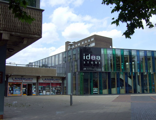 The Idea Store, Poplar What used to be known as a library! This state-of-the-art version has been designed to provide a community resource here on the Lansbury Estate with all sorts of classes, courses and creative opportunities, as well as a cafe. And books! Read about it here